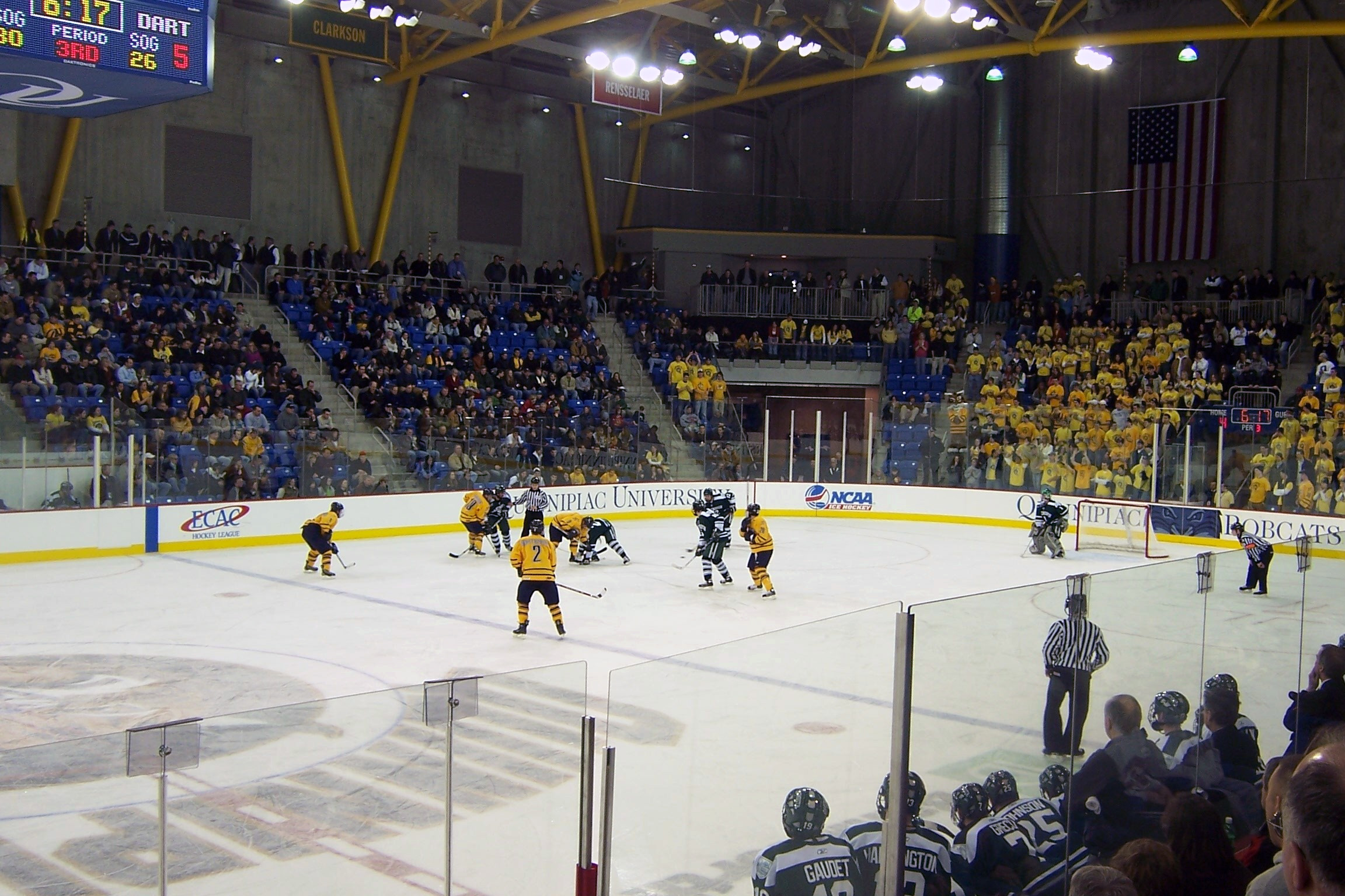 Hockey action at TDBanknorthSportsCenter in Hamden, CT. Taken by me, 9 February 2007.